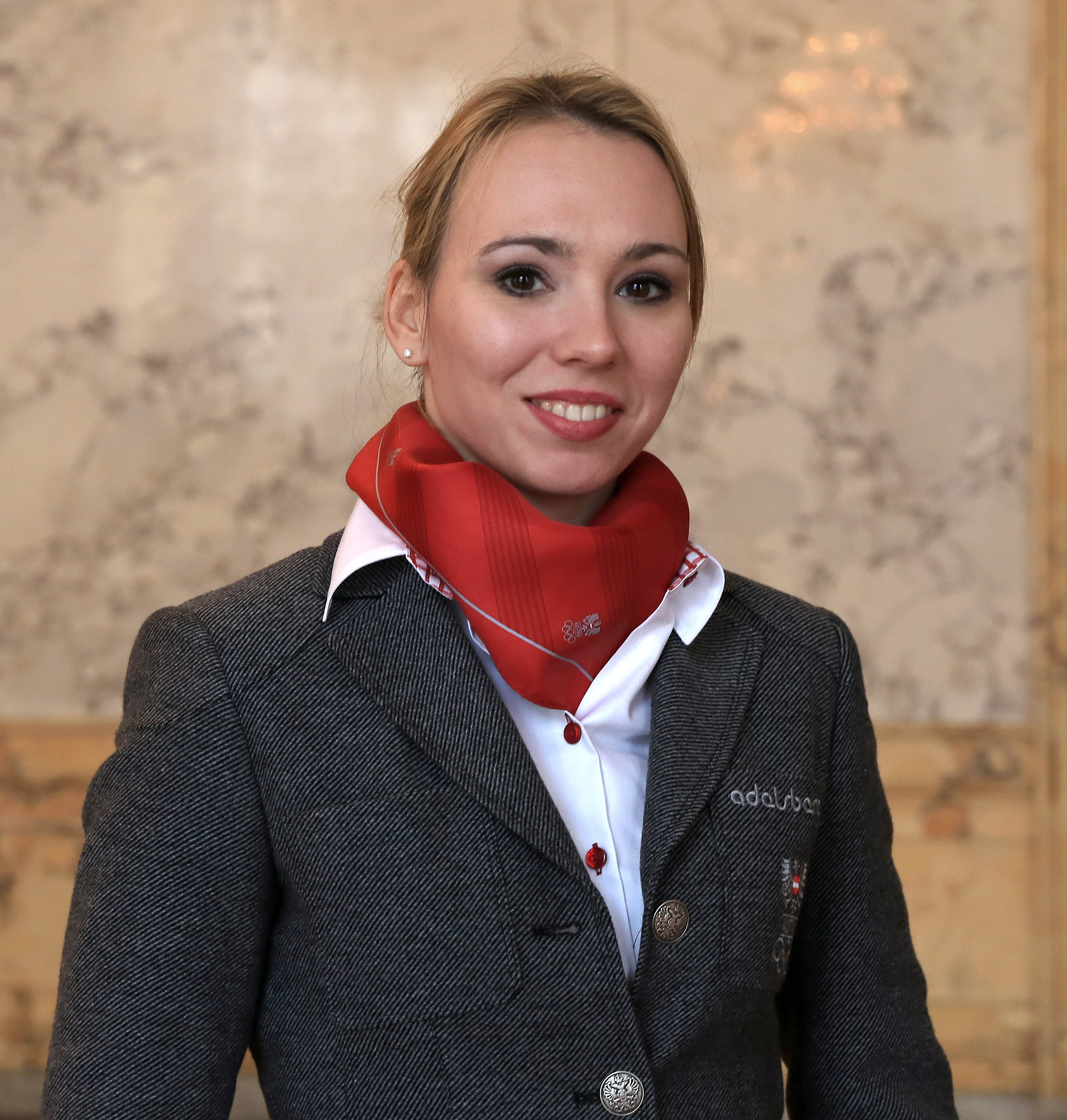 Athletes of the Austrian team for the 2014 Winter Olympics - Figure skating: Kerstin Frank at Hofburg Palace in Vienna, Austria.